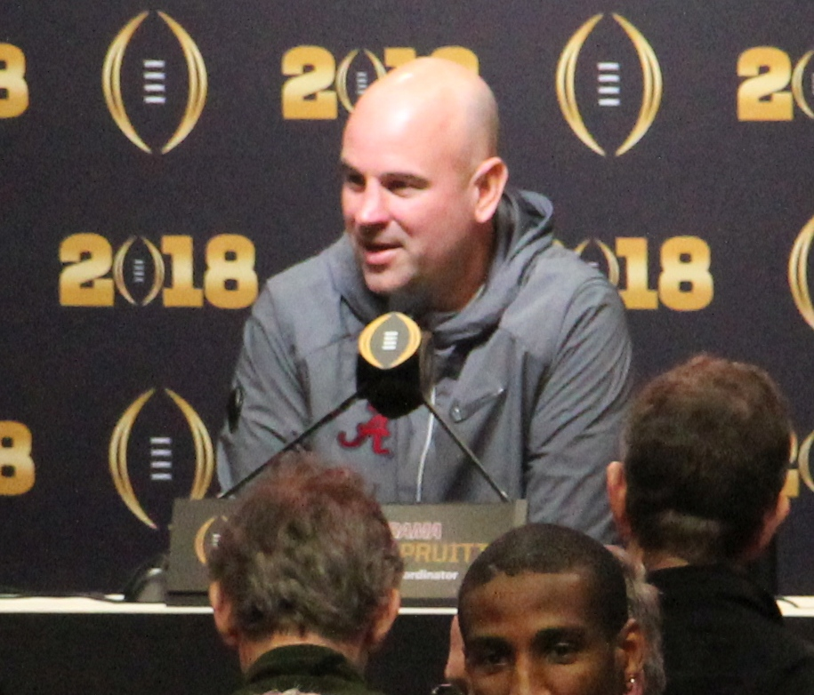 Jeremy Pruitt at media day, January 2018